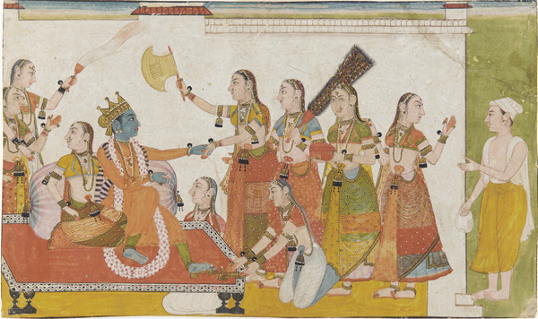 Krishna welcomes Sudama, Bhagavata Purana, 17th century, India. Color and gold on paper.